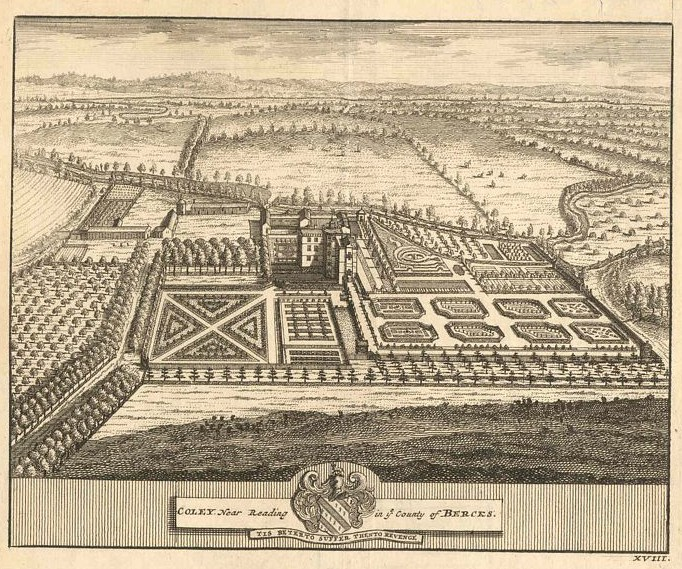 Coley Park, Reading, as if seen from the air, showing the house and formal gardens, with the arms of the Vachell family below : print with the title "Coley near Reading in ye County of Bercks." An identical print in copies of Lysons' "Berkshire" states that it was drawn by L. Knyff. 1700-1709.